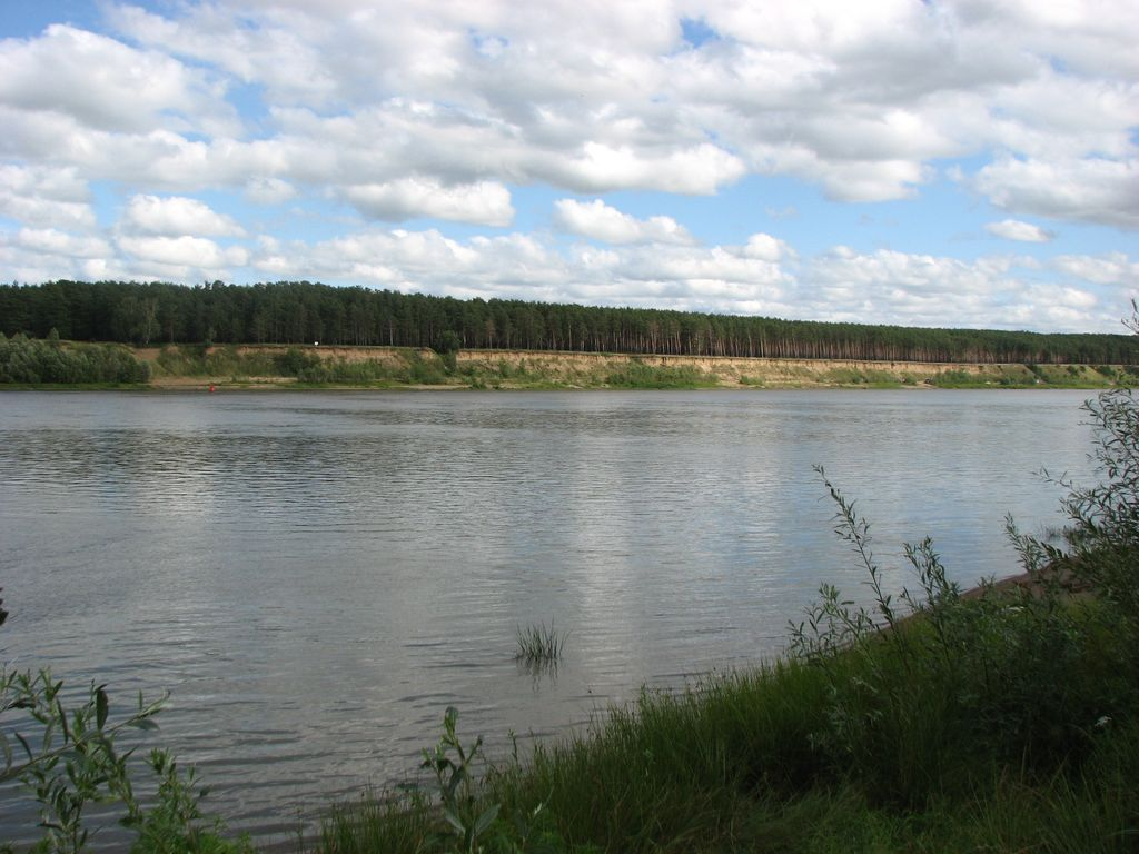 omka